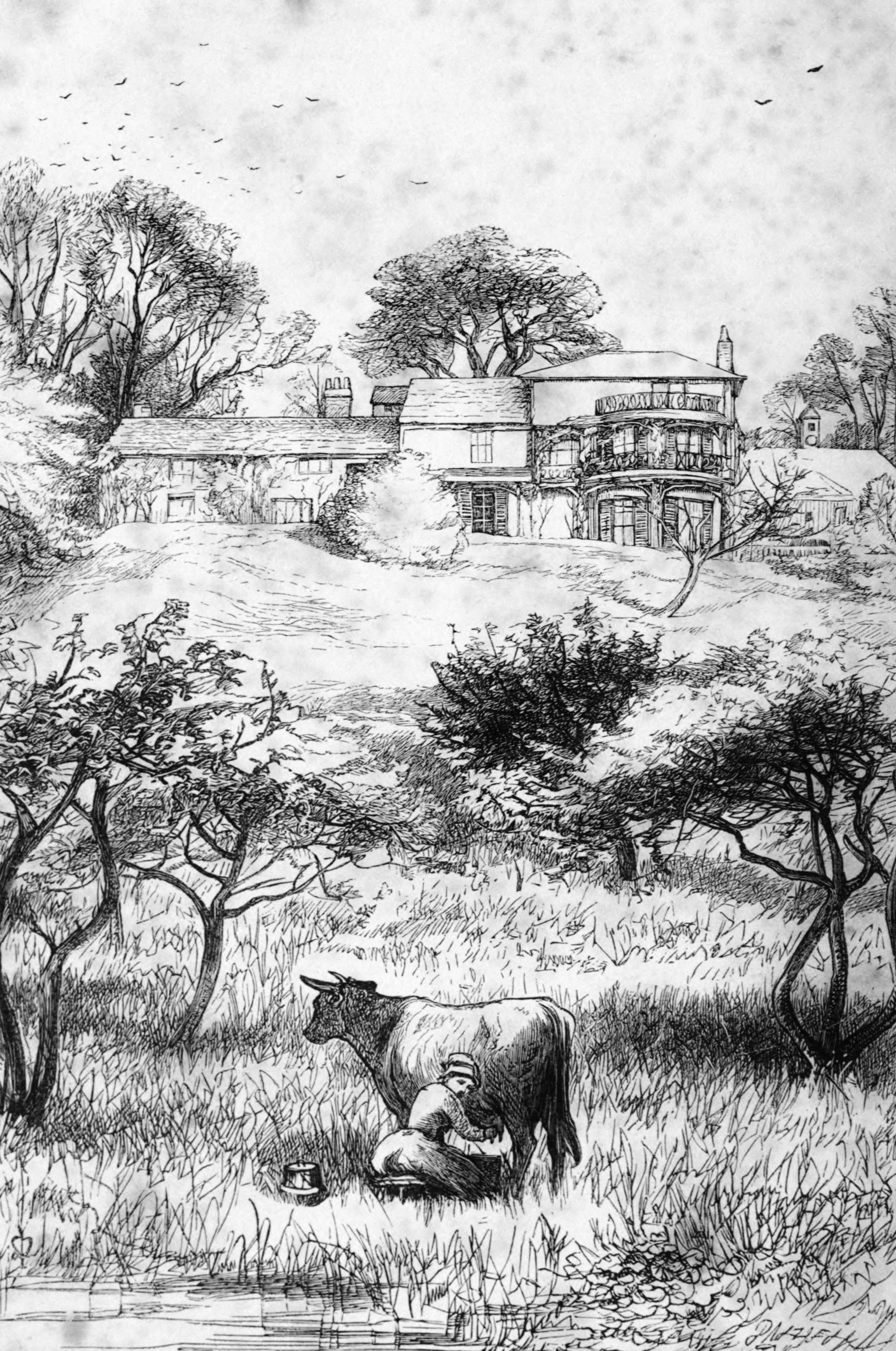 Frontispiece to Orley Farm by Anthony Trollope. "The drawing shows Trollope's own boyhood home on Harrow Hill." Reference: Rogers, Pat (1990) The Oxford Illustrated History of English Literature, Oxford University Press, p. 374 ISBN: 978-0-19285437-7.